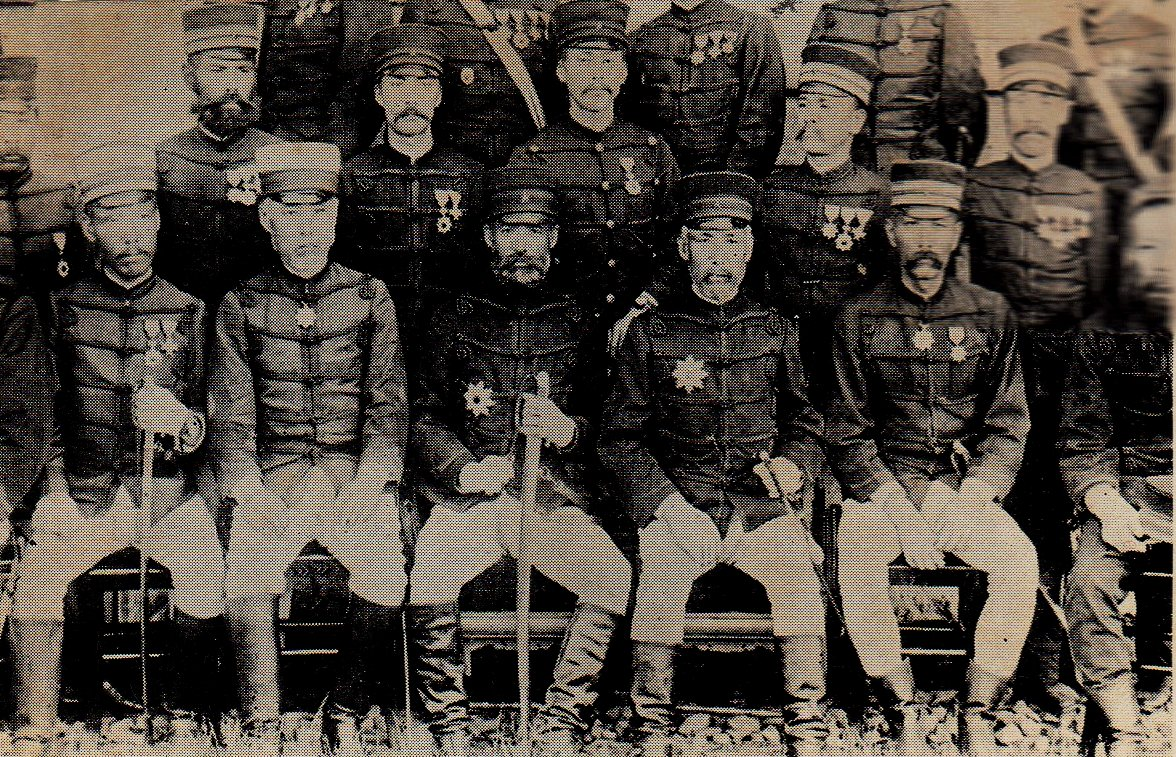 Nogi Maresuke visited Aizu School